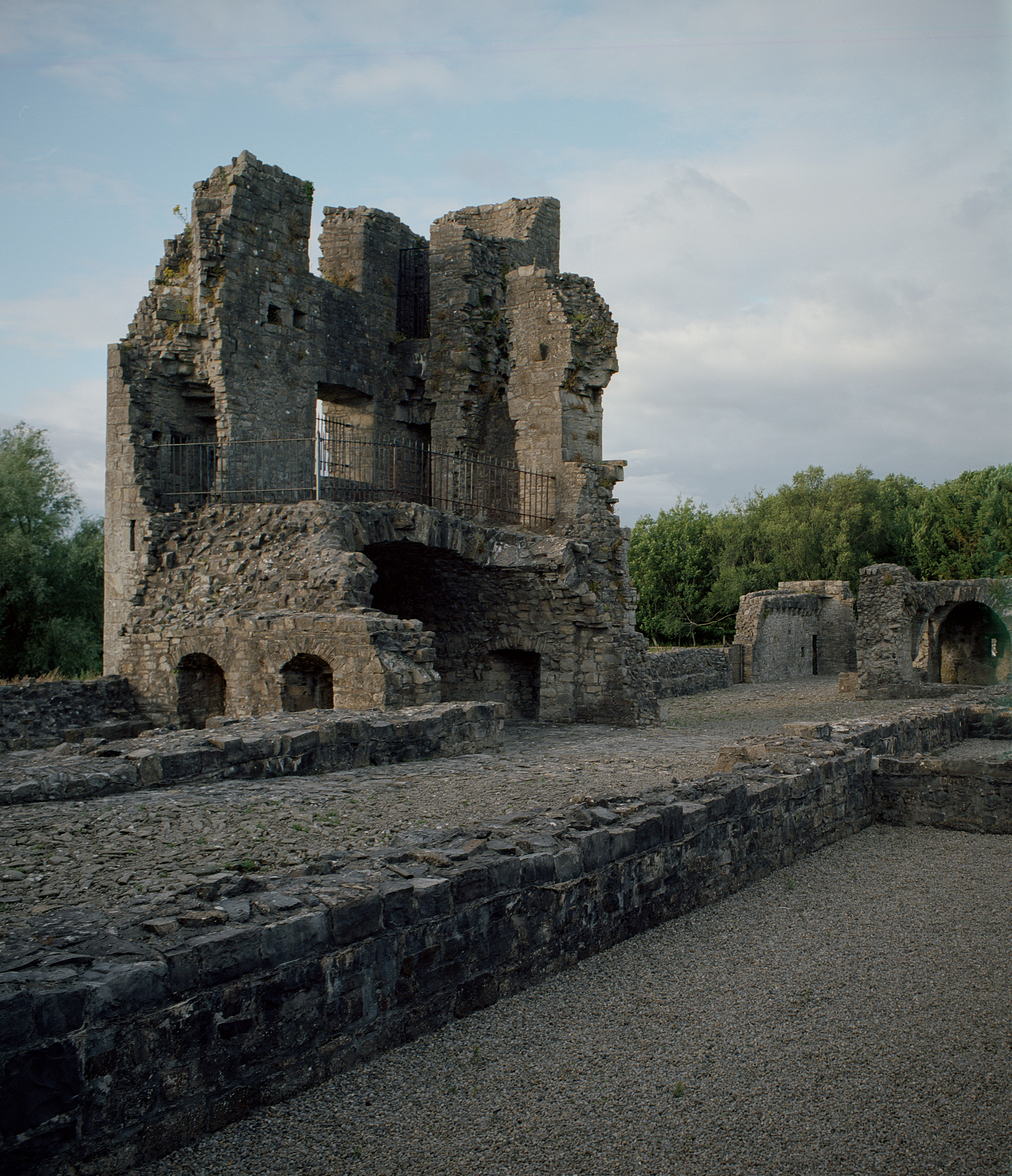 A view of one of the surviving buildings at St. John's Priory from inside the structure.